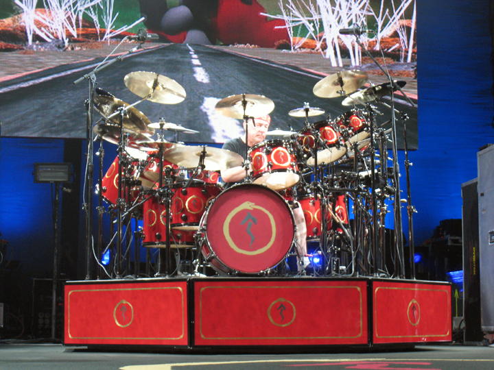 Neil Peart